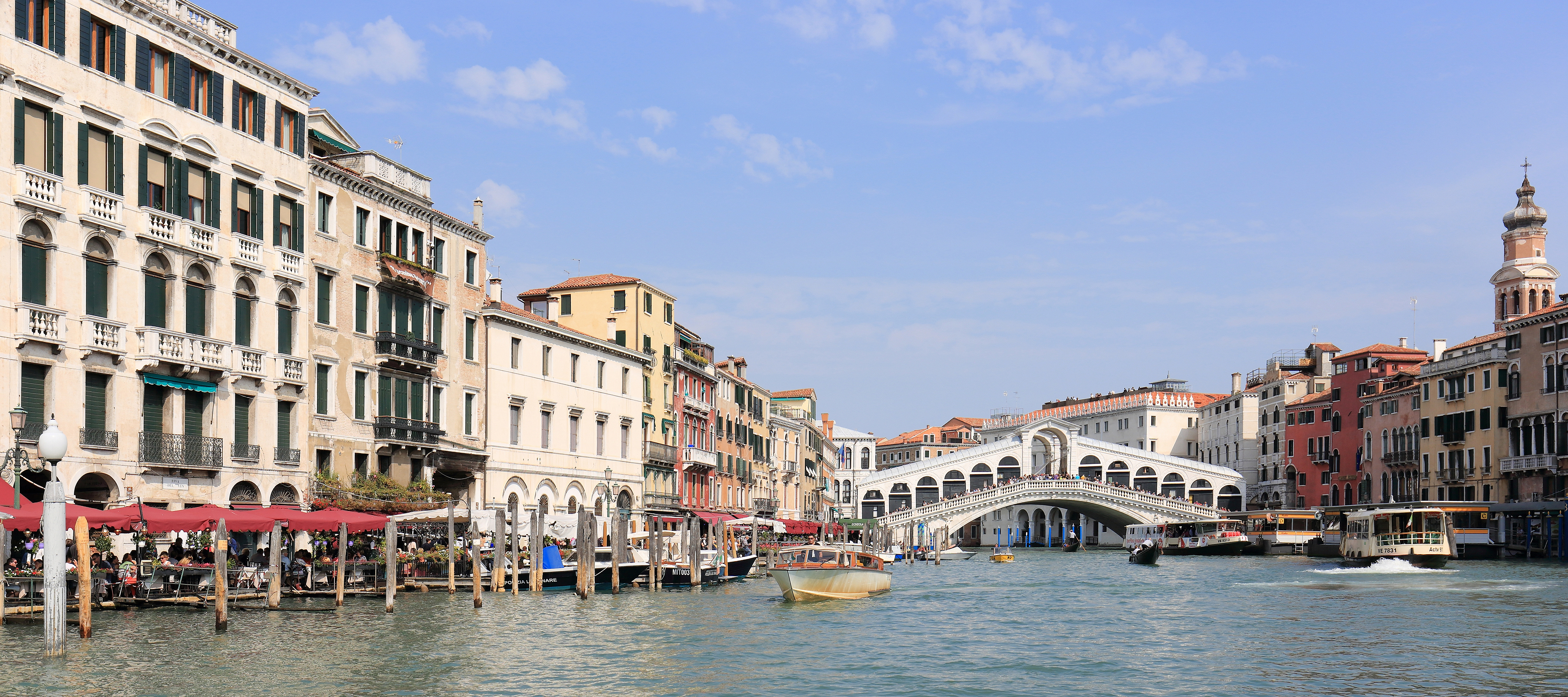 Canal Grande and Rialto Bridge, Venice - part of UNESCO World Heritage Site Ref. Number 394.